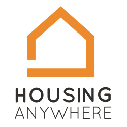 Housing Anywhere logo